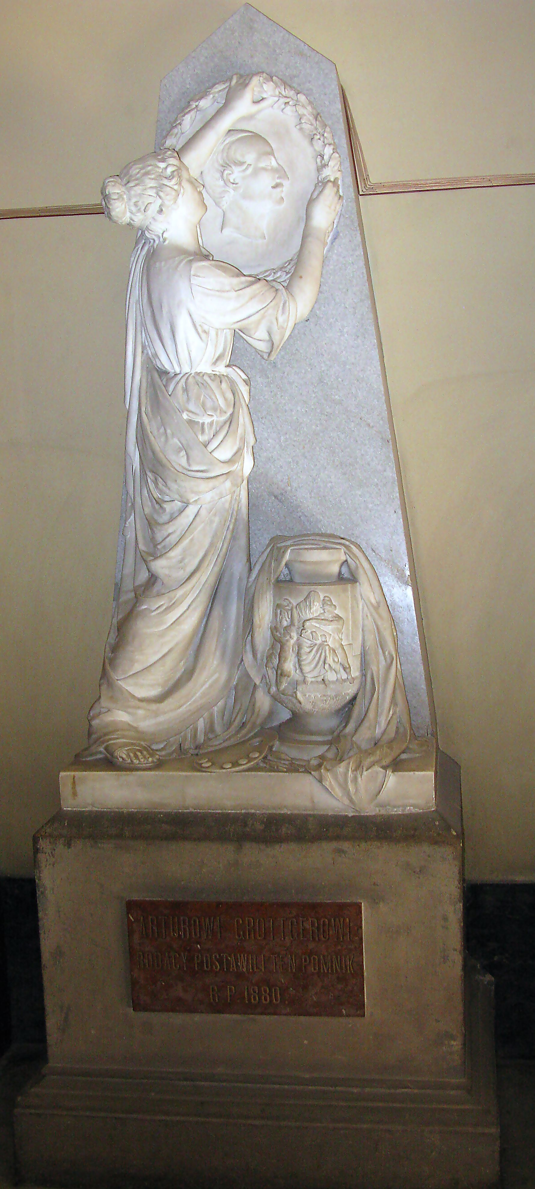 Artur Grottger epitaph in Dominican Church in Lviv